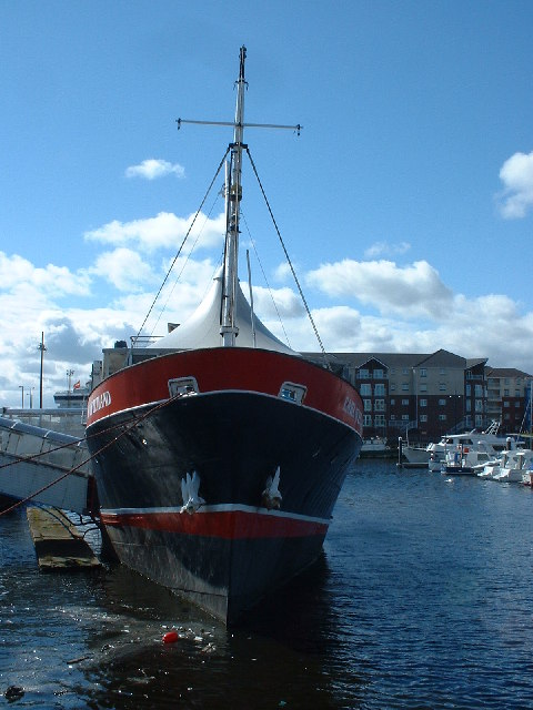 SS Earl of Zetland. Once a ferry that operated between Shetland and Orkney and now a floating restaurant.